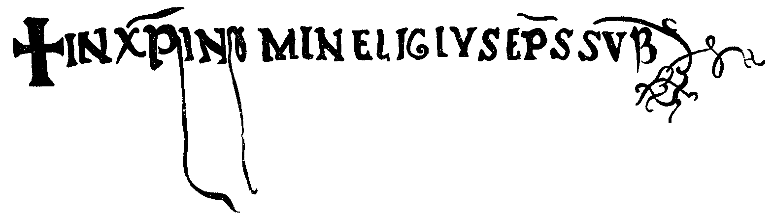 Signature of St. Eloy (Eligius), Financier and Minister to Dagobert I.; from the Charter of Foundation of the Abbey of Solignac (Mabillon, "Da Re Diplomatica").